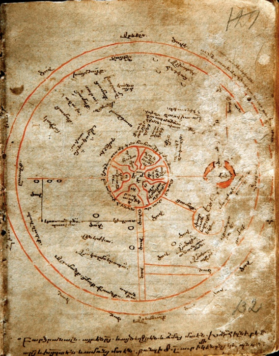 Armenian map of 13th-14th centuries. Matenadaran, Ms. 1242